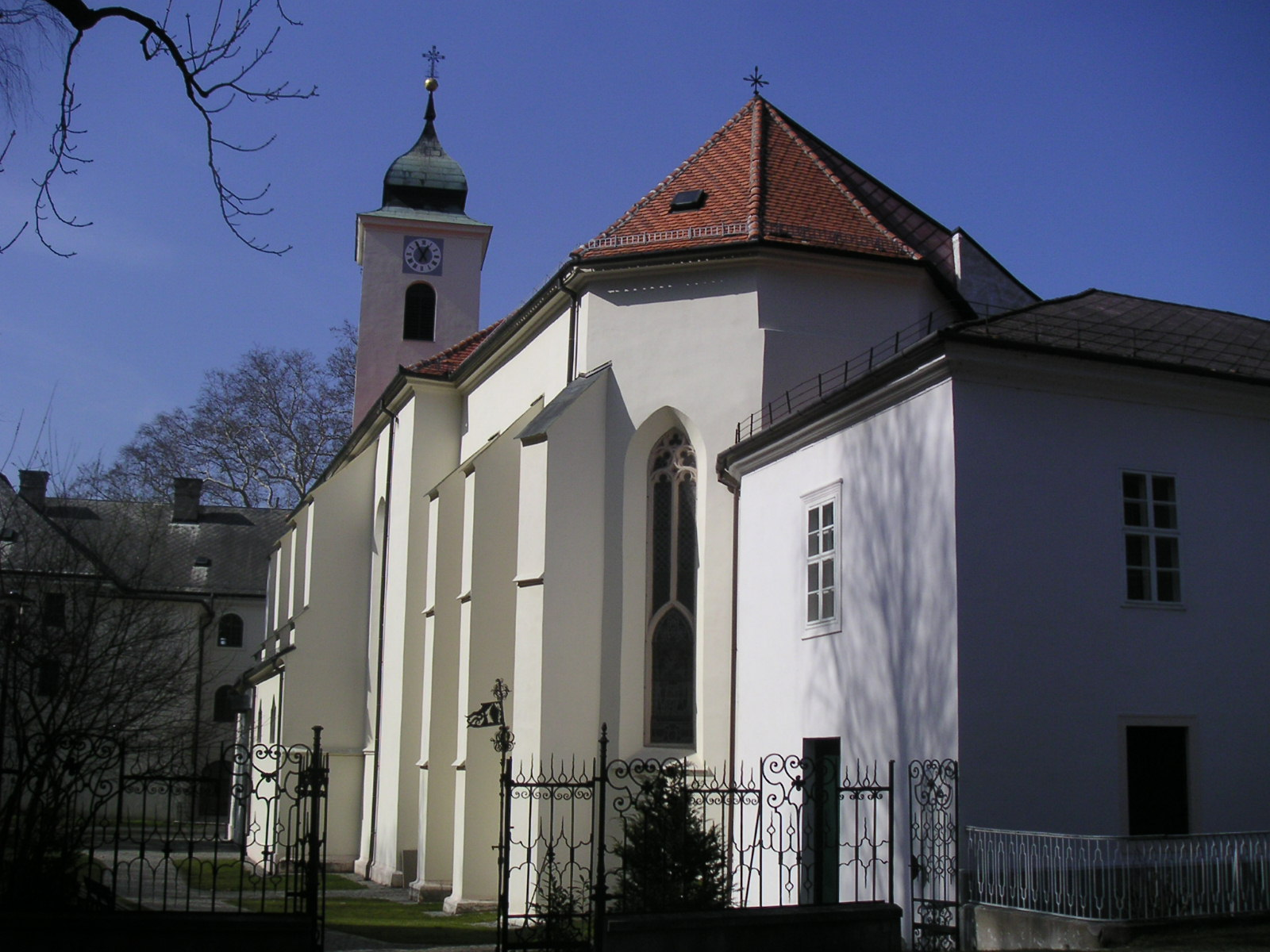 Pilgrimage church at Marianka, Slovakia